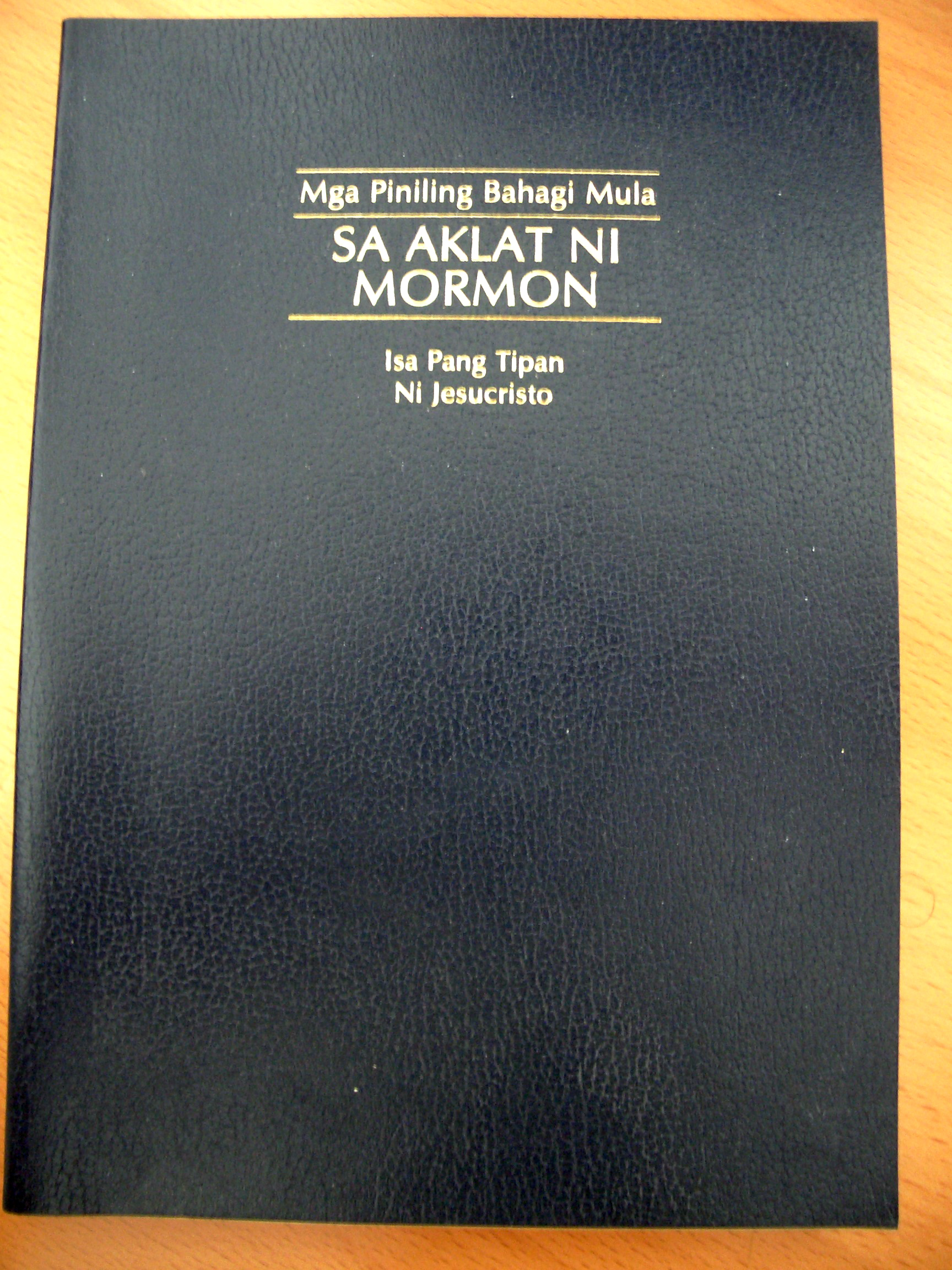 Cover of a Tagalog translation of the Book of Mormon, published by The Church of Jesus Christ of Latter-day Saints.